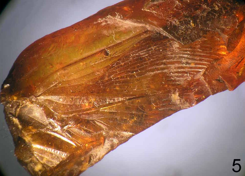 FIGURES 5 Ordralfabetix sirophatanis gen. sp. n. Holotype PA 2738. 5 — General view